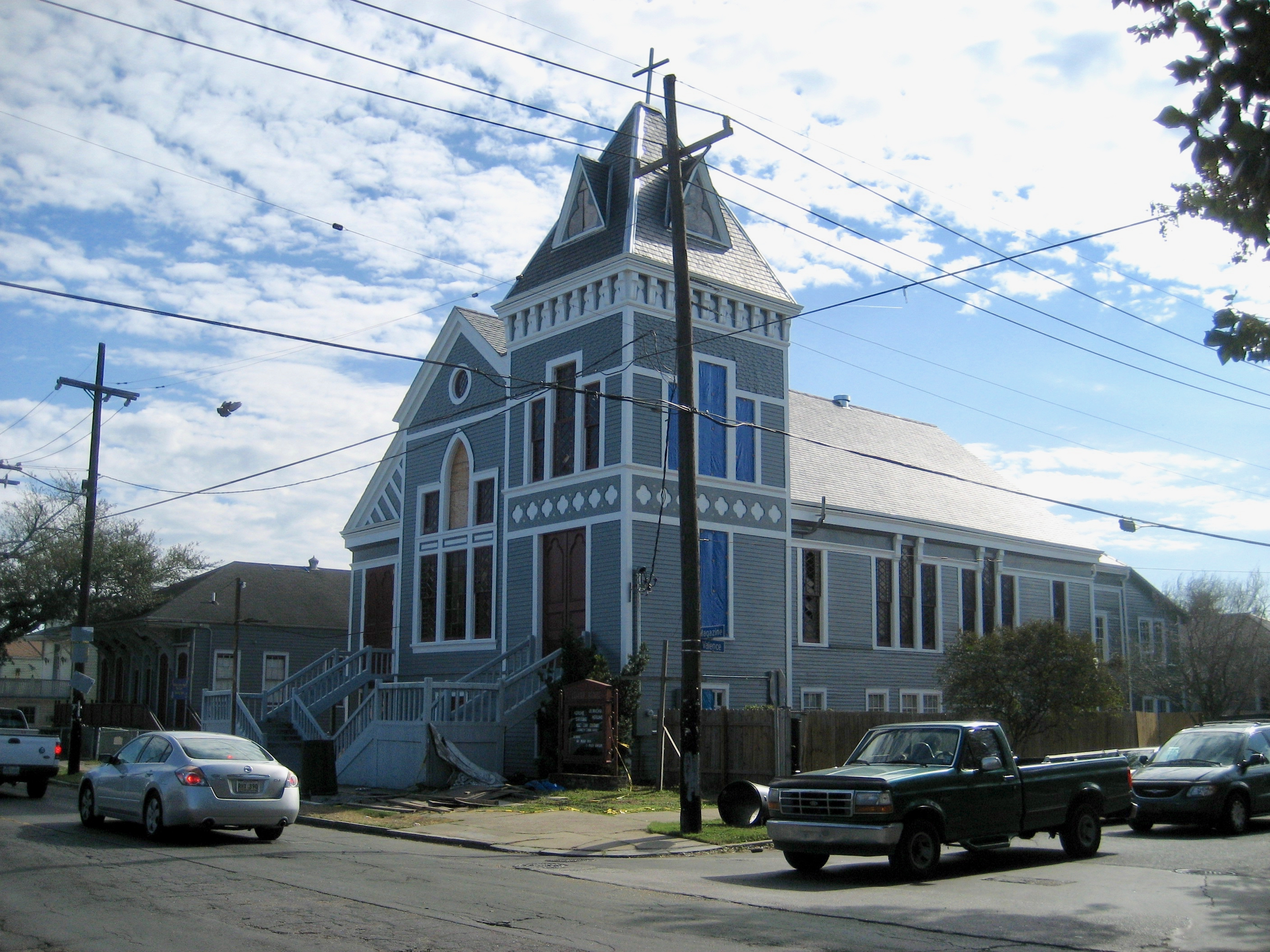 Magazine Street, New Orleans. Commercial district up river from Napoleon Avenue. Valance Street Baptist Church damaged by Hurricane Katrina over 2 years before with partial repairs.